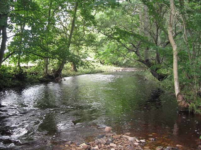 River Font Upstream on the River Font, taken from Flaggy Ford.